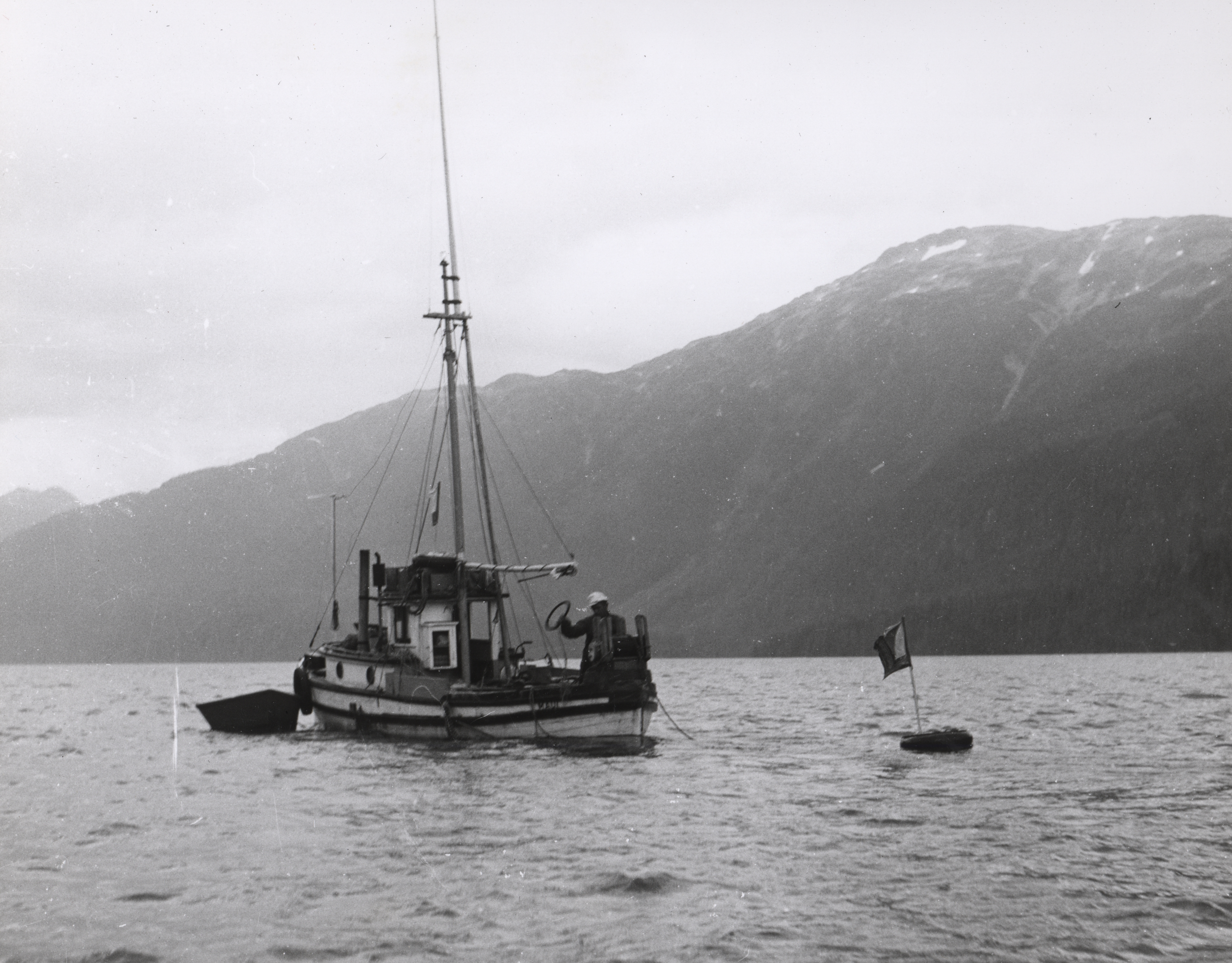 Setting buoy to mark end of salmon longline (gill net) Image ID: fish5720, NOAA's Historic Fisheries Collection